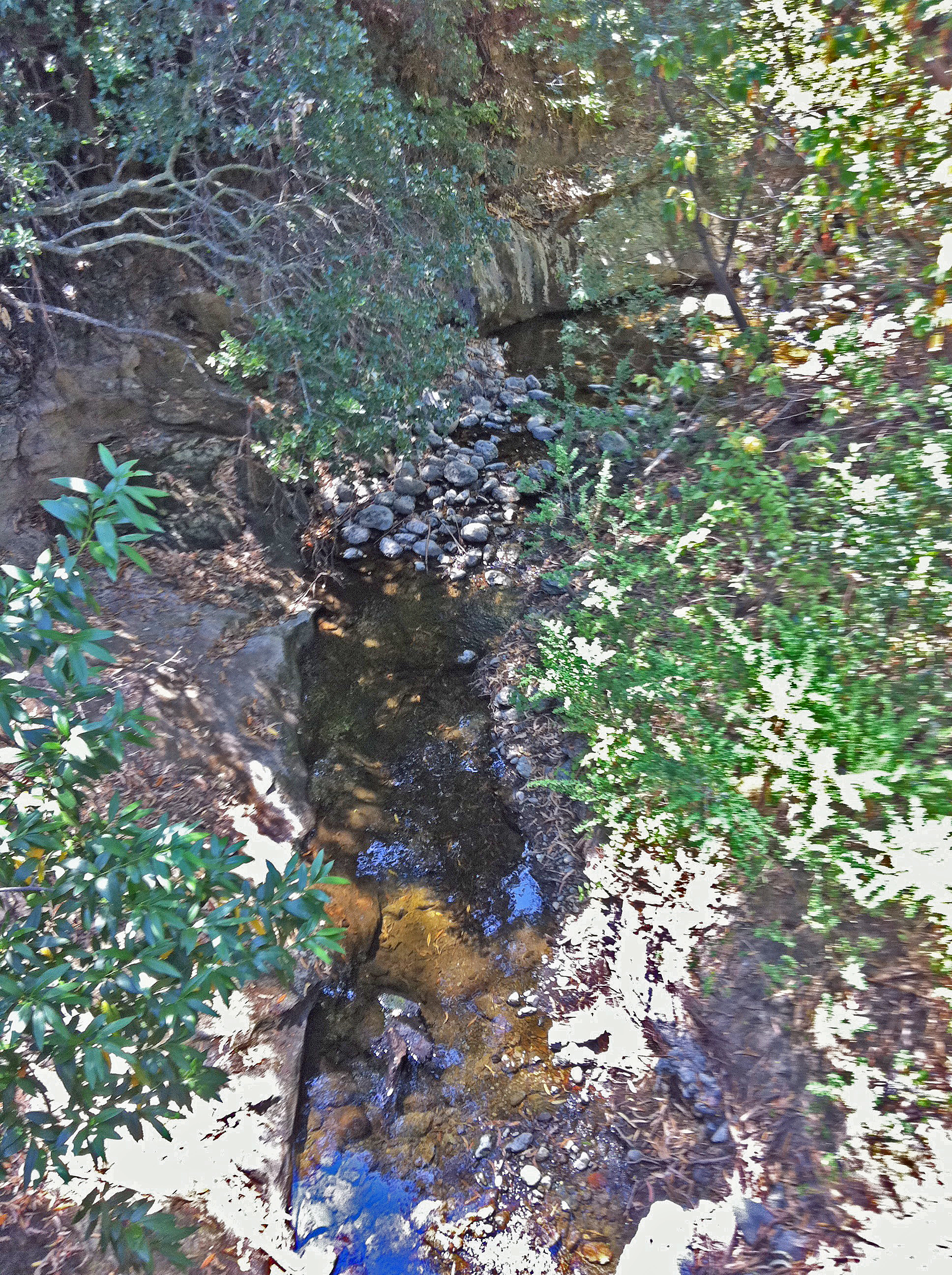 Los Trancos Creek still with water end July 2011 in this photo taken upstream from Piers Lane Bridge